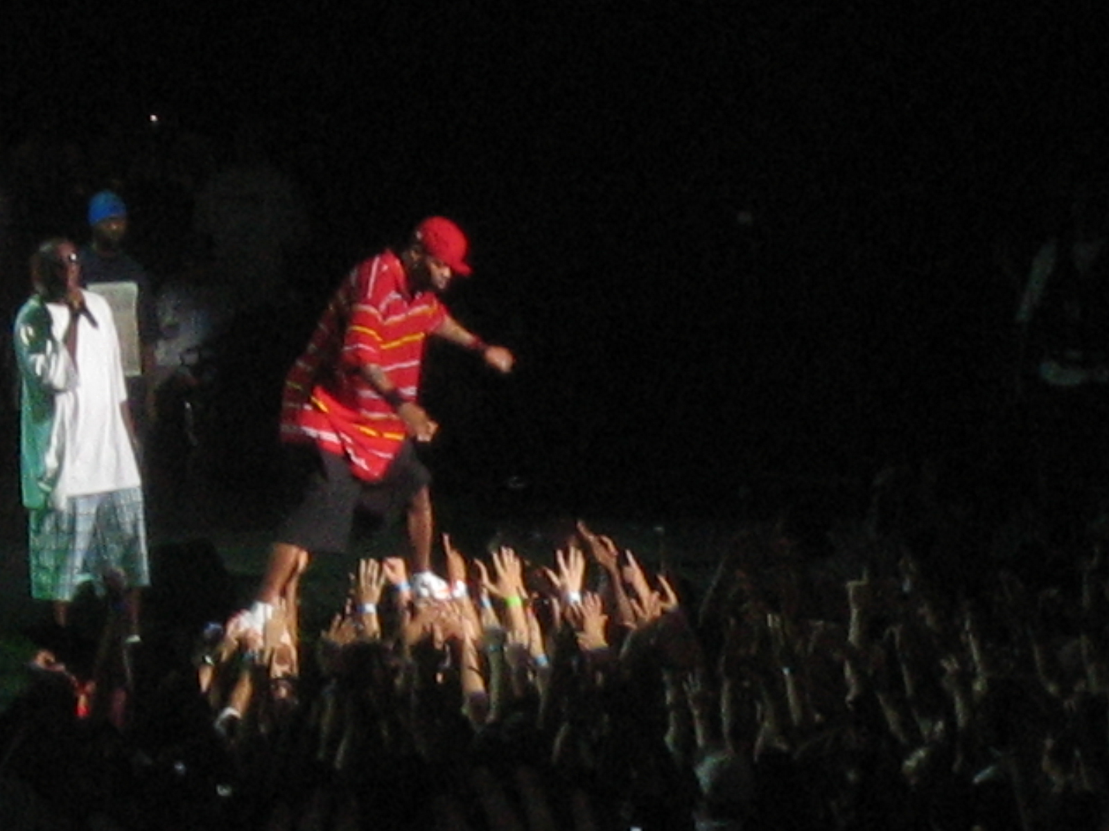 Method Man preparing to stage dive at Rock the Bells 2007 in Boston.